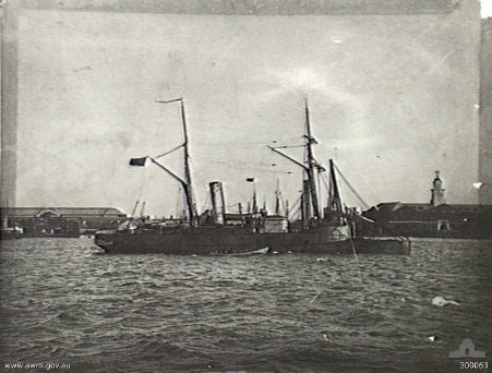 Starboard side photograph of Victorian gunboat HMVS Victoria before departing from Portsmouth to Australia. She is rigged with sail on the foremast.